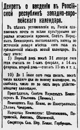 Partial Russian text of the decree adopting the Gregorian calendar in Russia as published in Pravda 25 January 1918 (Julian) or 7 February 1918 (Gregorian). The full text of the article: Decree regarding the introduction of the Western European calendar in the Russian Republic. In order to establish in Russia the same way of counting time as used by almost all civilized people, the Council of the People's Commissars decrees the introduction of the new calendar into lay [i.e., non-religious] use after the end of the month of January of this year. Accordingly: 1) The first day after 31 January of this year is to be counted not as the 1st of February, but as the 14th of February, the second day, counted as the 15th, and so on. 10) Until 1 July of this year one should write, after each date in the new calendar, the parenthesized date according to the calendar that has been in effect until now. President of the Council of the People's Commissars V. Ulyanov (Lenin).Assistant People's Commissar for Foreign Affairs Chicherin.People's Commissars: Shlyapnikov, Petrovsky, Amosov, Obolensky.Secretary of the Council of the People's Commissars Gorbunov. Items (2)–(9) that were omitted from the Pravda article specify how salaries and dates of obligations that were to occur during 1–13 February (Julian) should be adjusted. ДЕКРЕТ "О ВВЕДЕНИИ ЗАПАДНО-ЕВРОПЕЙСКОГО КАЛЕНДАРЯ" (Decree "On the introduction of the Western European calendar") contains the complete Russian text of the decree. Since the document was published before the Reforms of Russian orthography were finalized in late 1918, the "old" Russian spelling is still used.